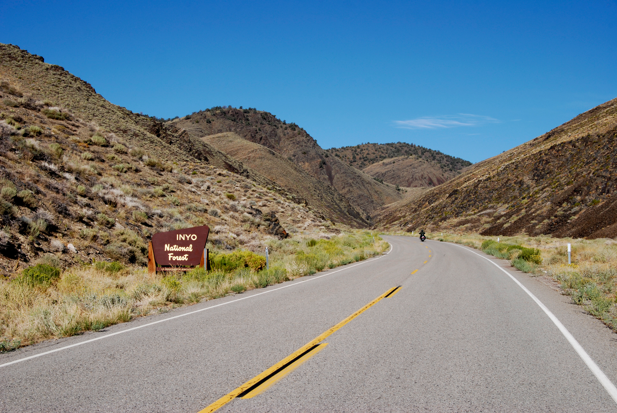 Westgard Pass Road (California State Route 168), east of Westgard Pass, Inyo National Forest